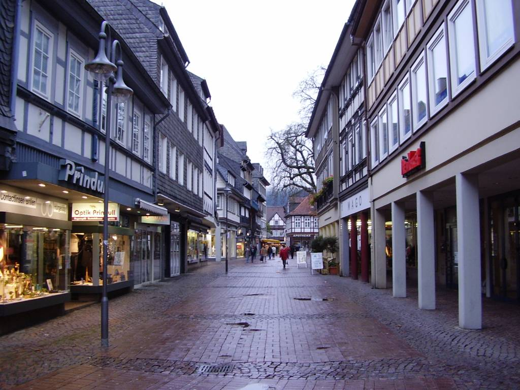 Mall in Goslar